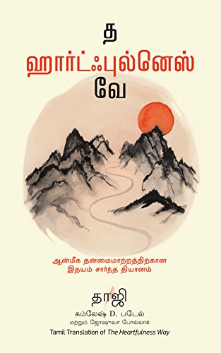 Cover of the book The Heartfulness Way, Tamil edition